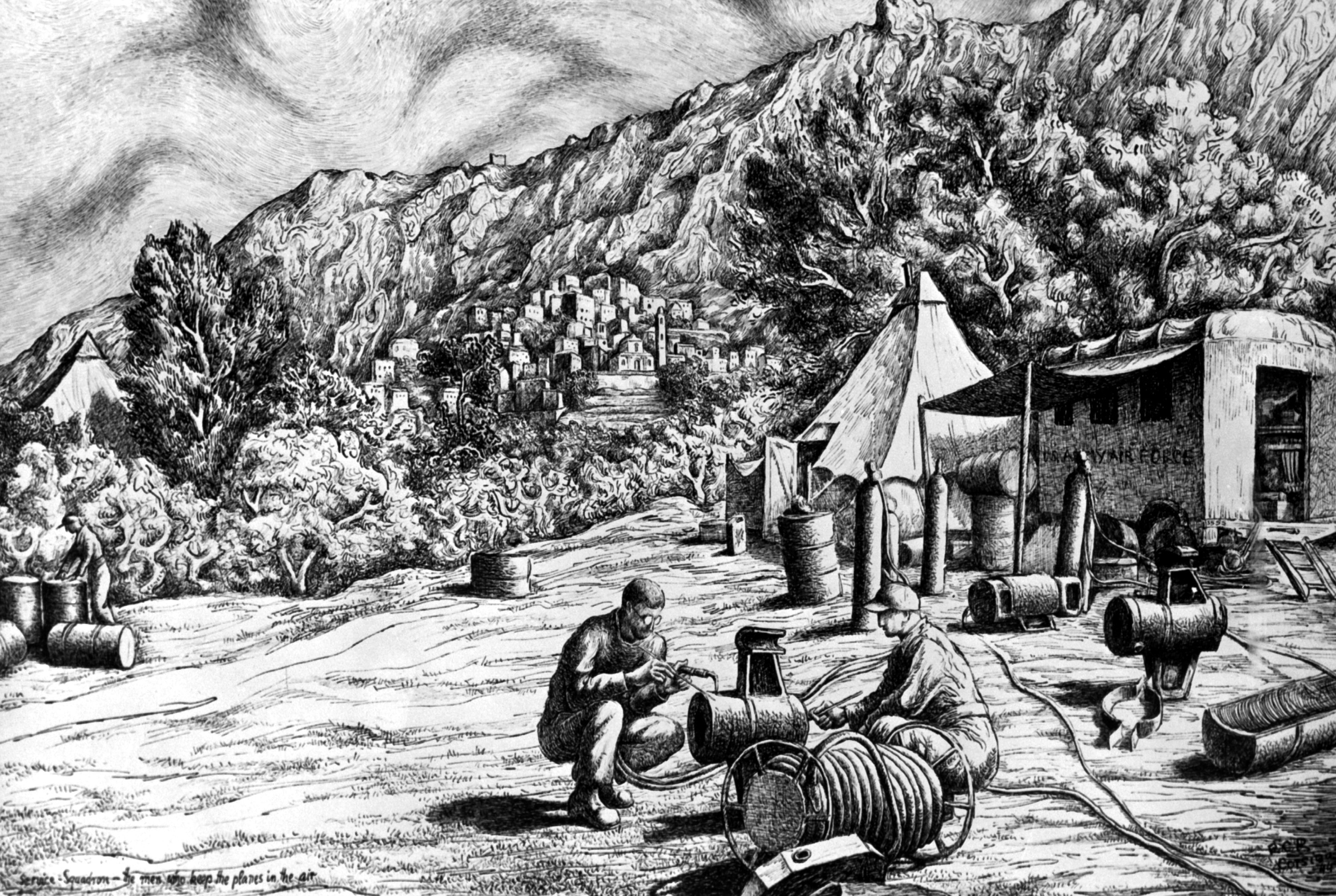 Artwork: "Service Squadron - the men who keep the planes in the air" Artist: Rudolph Von Ripper Corsica, 1944. Photographed 1982.